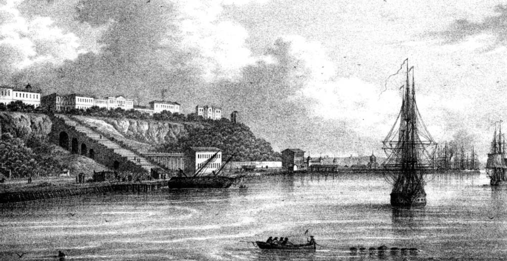 Harbour of Odessa